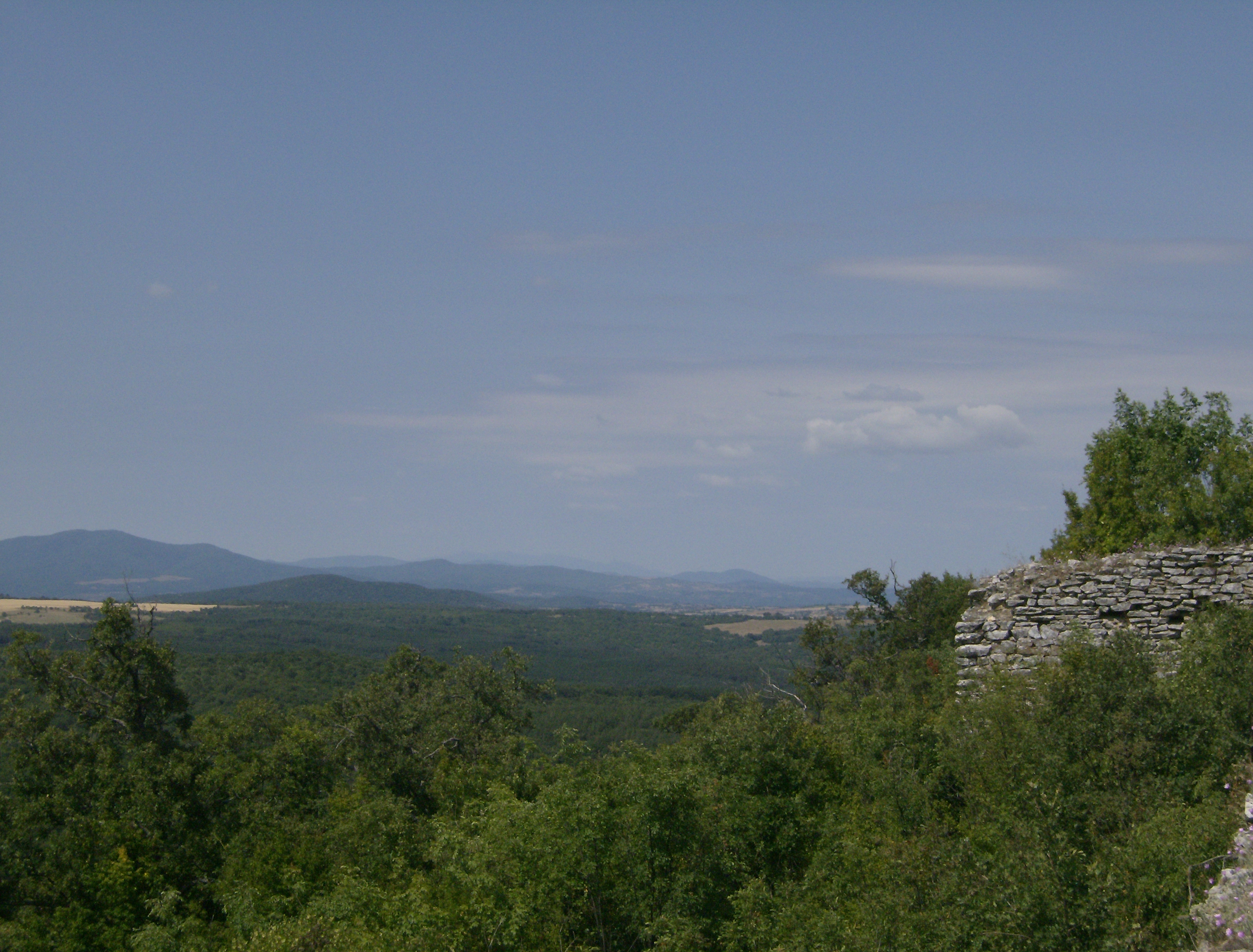 Lyutitsa Fortress